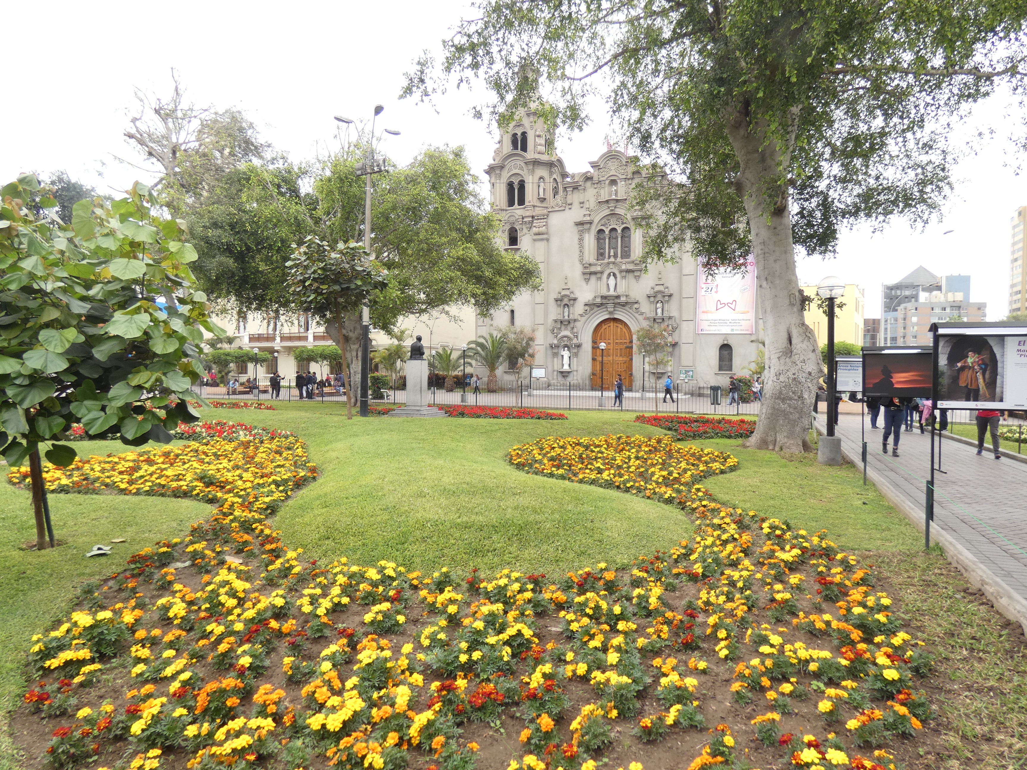 Park 7 June, Central Park, Lima, Peru